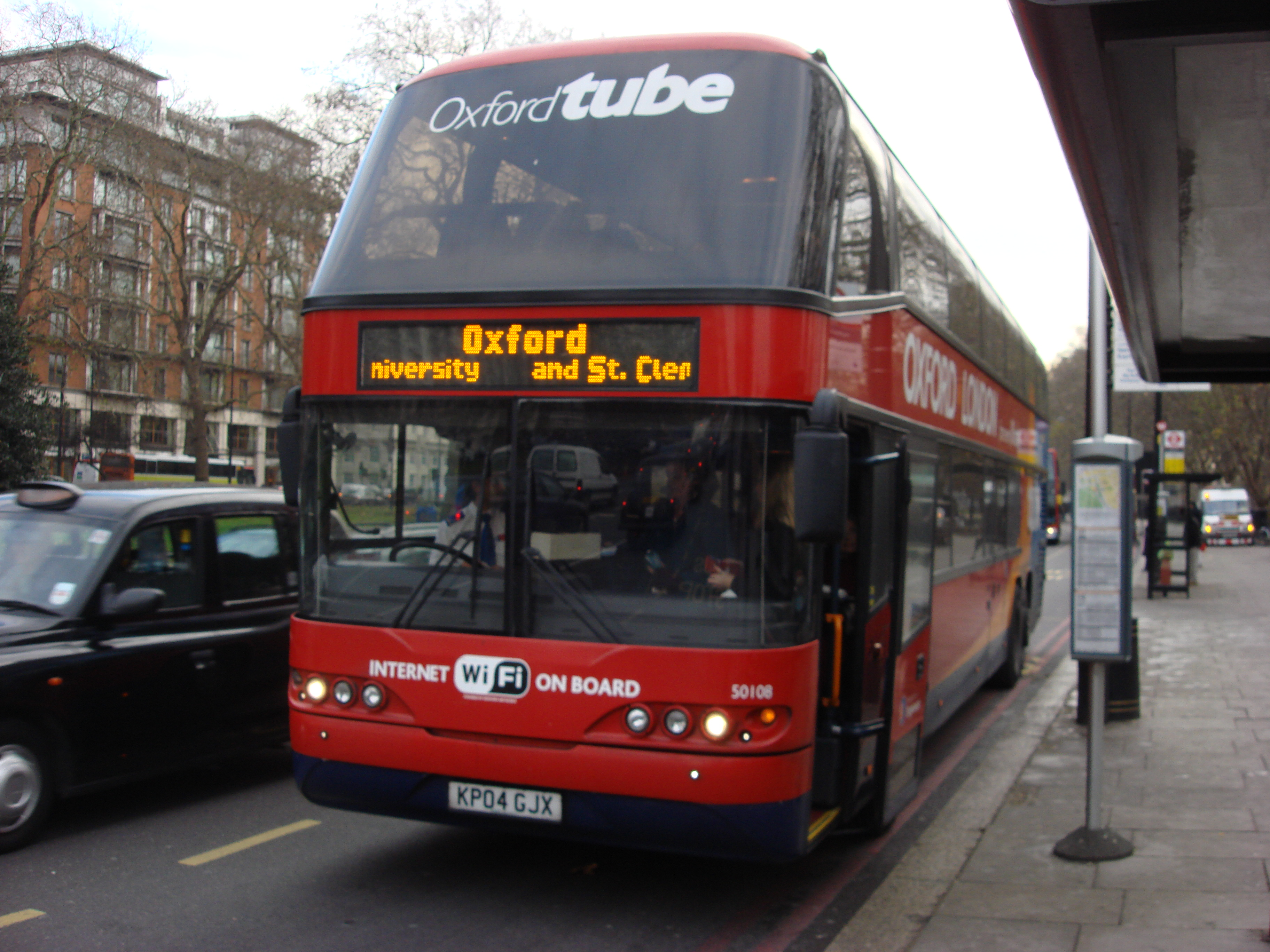 An Oxford Tube coach on Park Lane, London, England